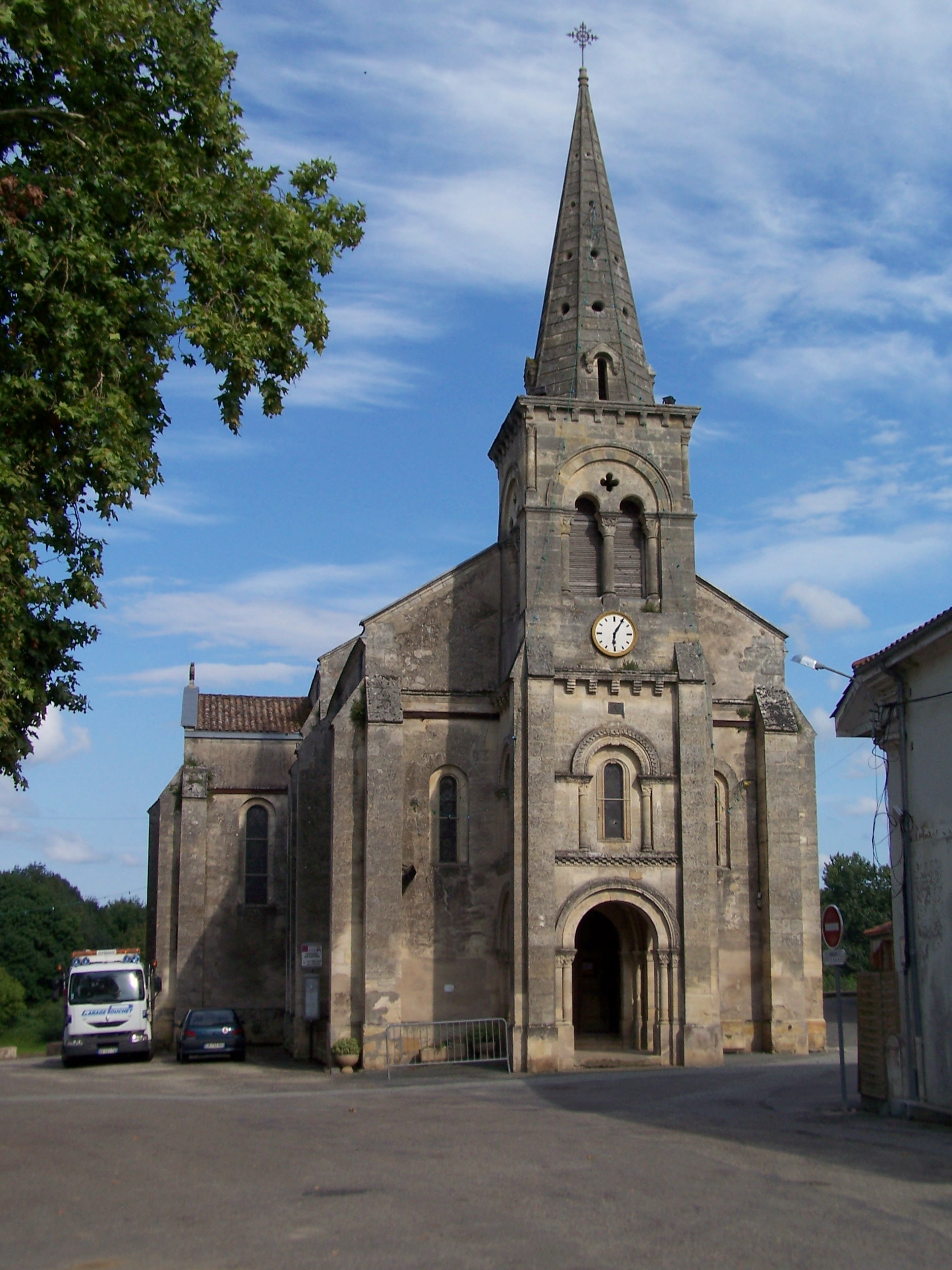 Saint Leodegar church of Couthures-sur-Garonne (Lot-et-Garonne, France)